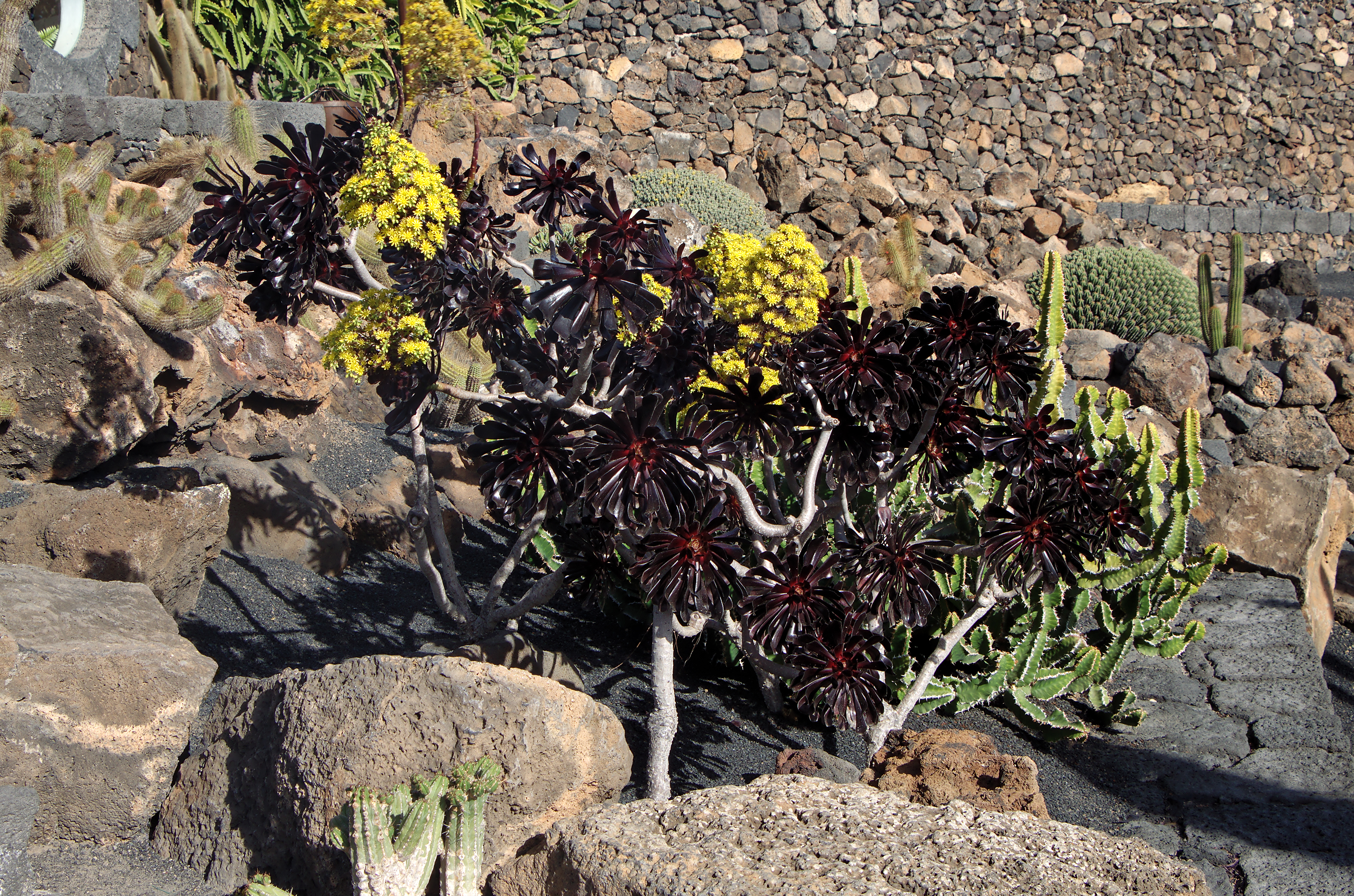 Tree Houseleek; Habitus; Jardín de Cactus, Guatiza, Lanzarote, Canary Islands, Spain.